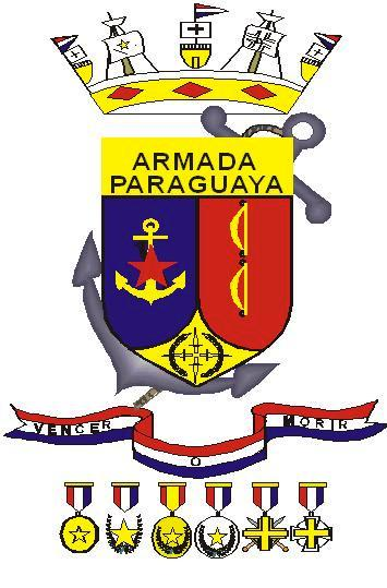 Coat of arms of the Paraguayan Paraguayan Navy